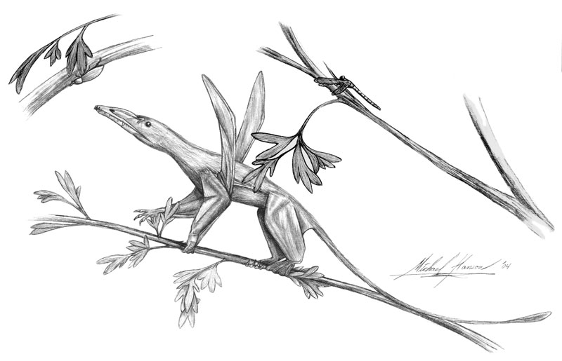 The pterosaur Preondactylus buffarinii, by Mike Hanson.